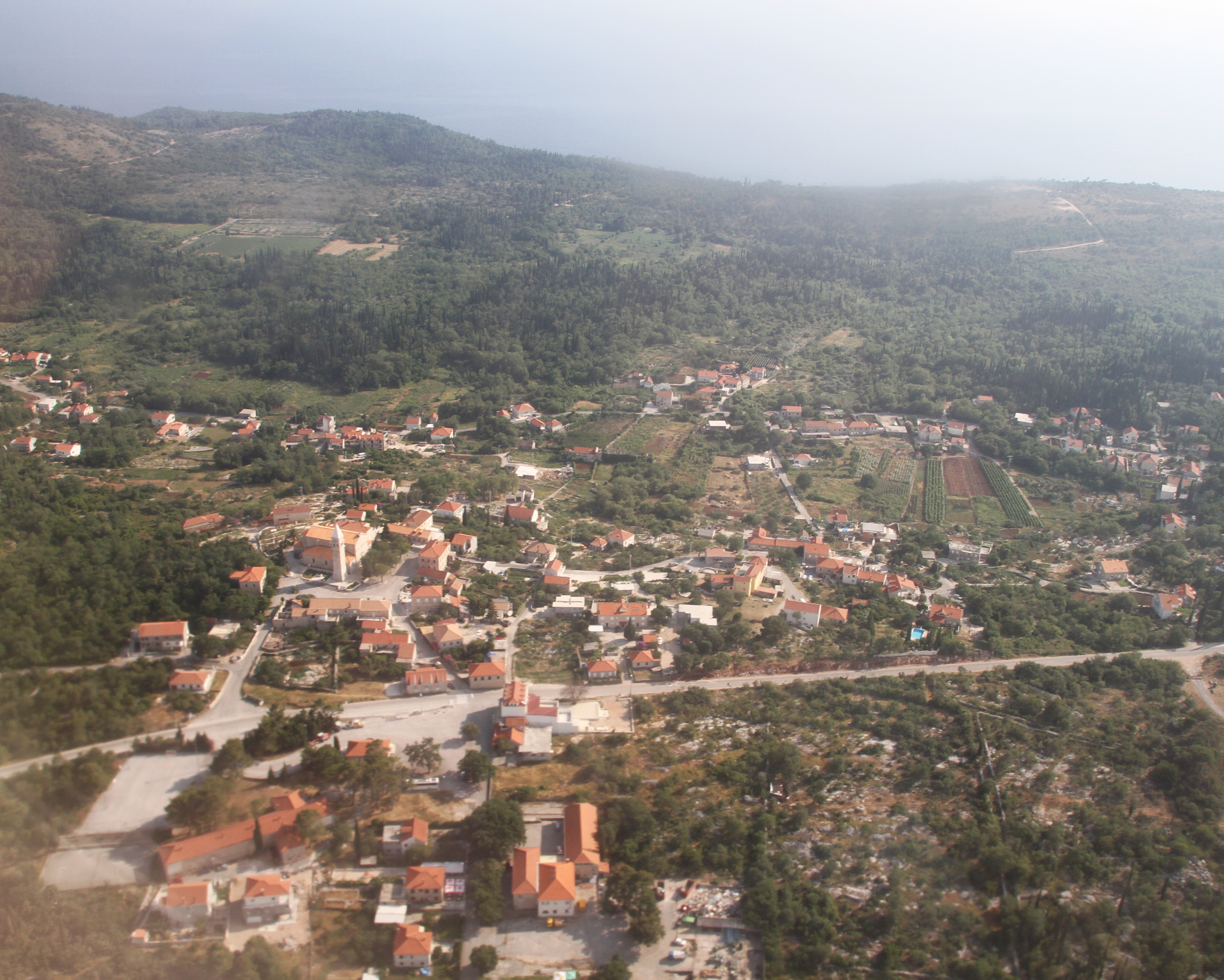 Image from the municipality of Konavle, southeastern Croatia. this municipailty contains a number of islands, the southernmost islands on this part of the Adriatic.